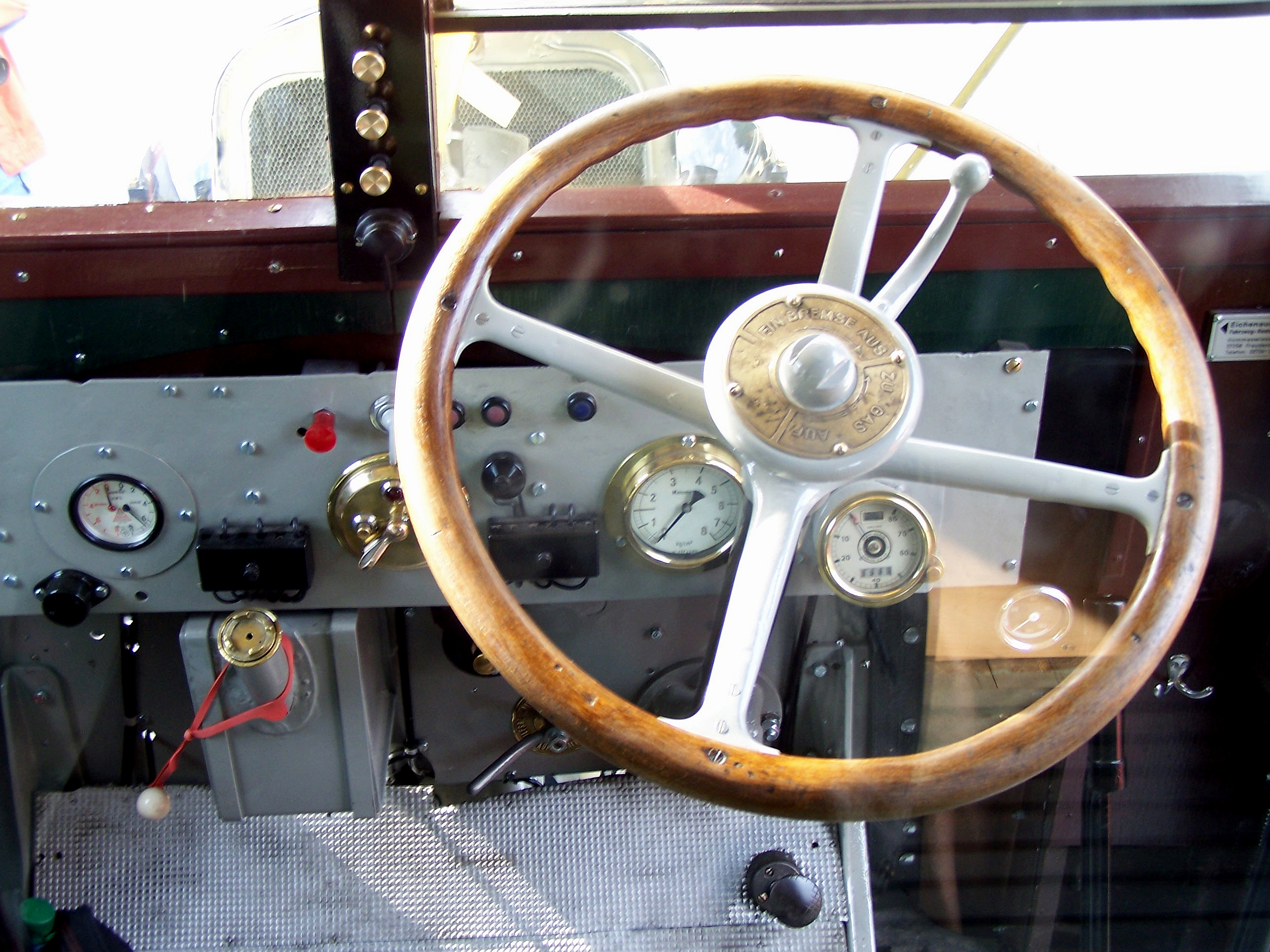 Cockpit of an historical post bus manufactured by DAAG in 1925